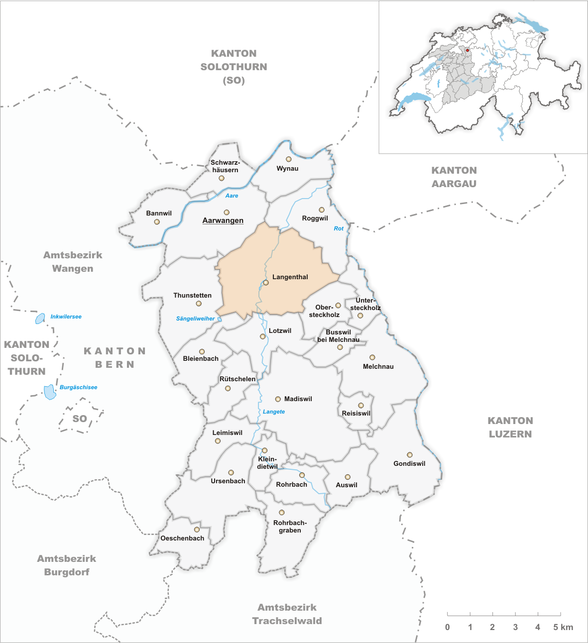 Municipality Langenthal